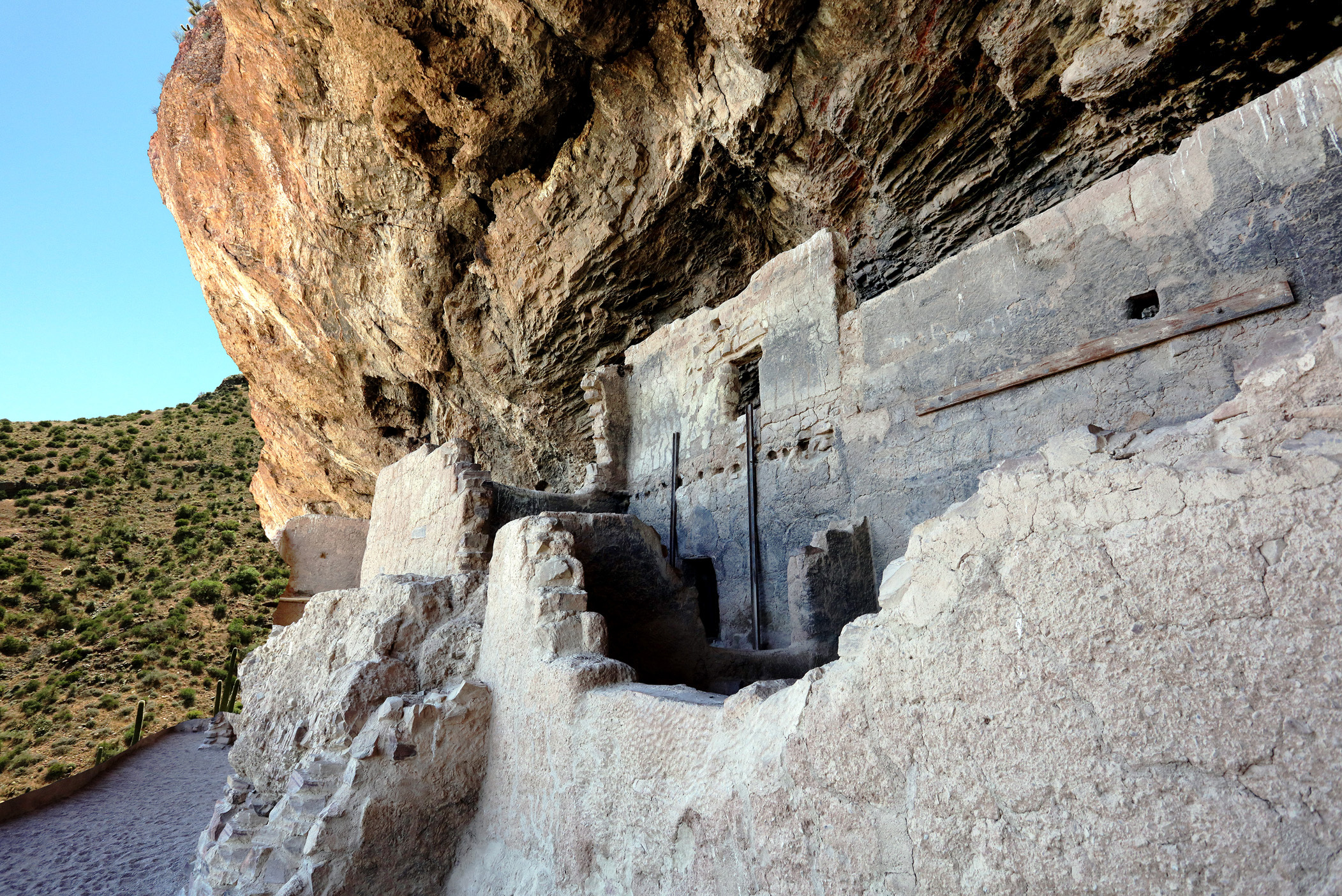 Tonto National Monument April 2019